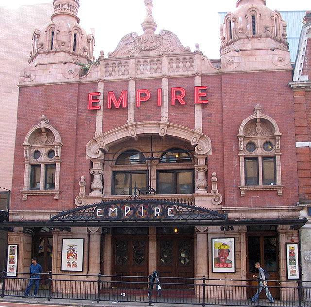 The Hackney Empire, Mare Street, Hackney, London. 28 August 2005. Photographer: Fin Fahey